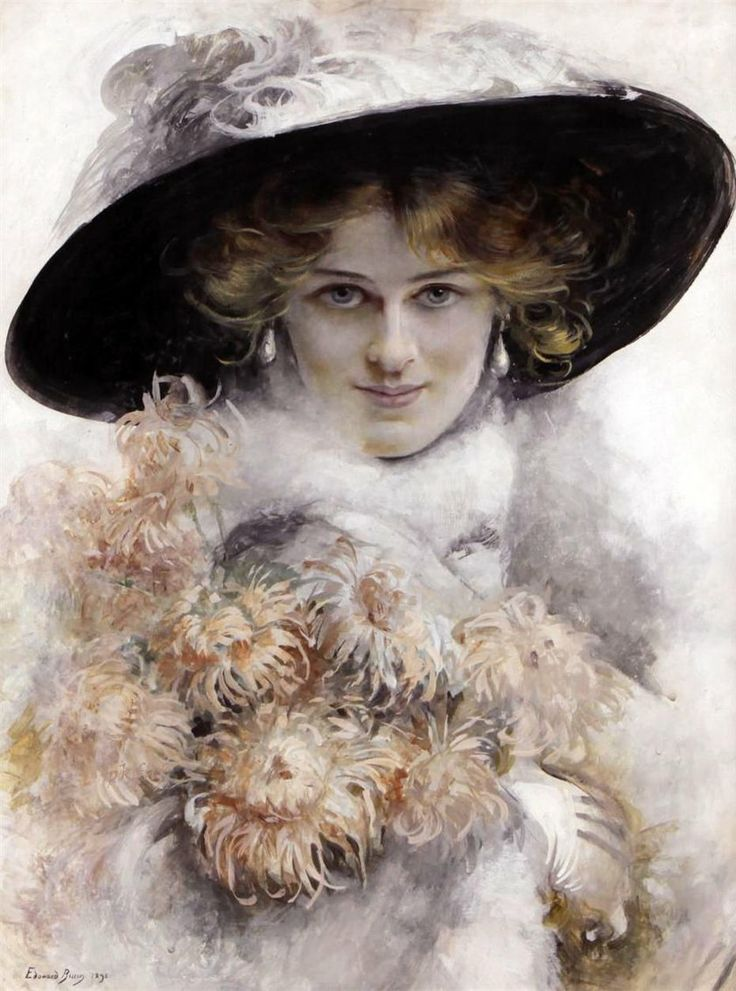 “A Portrait of a Lady in a Black Hat with a Bouquet of Flowers in her Arms” (1895) by Edouard Bisson